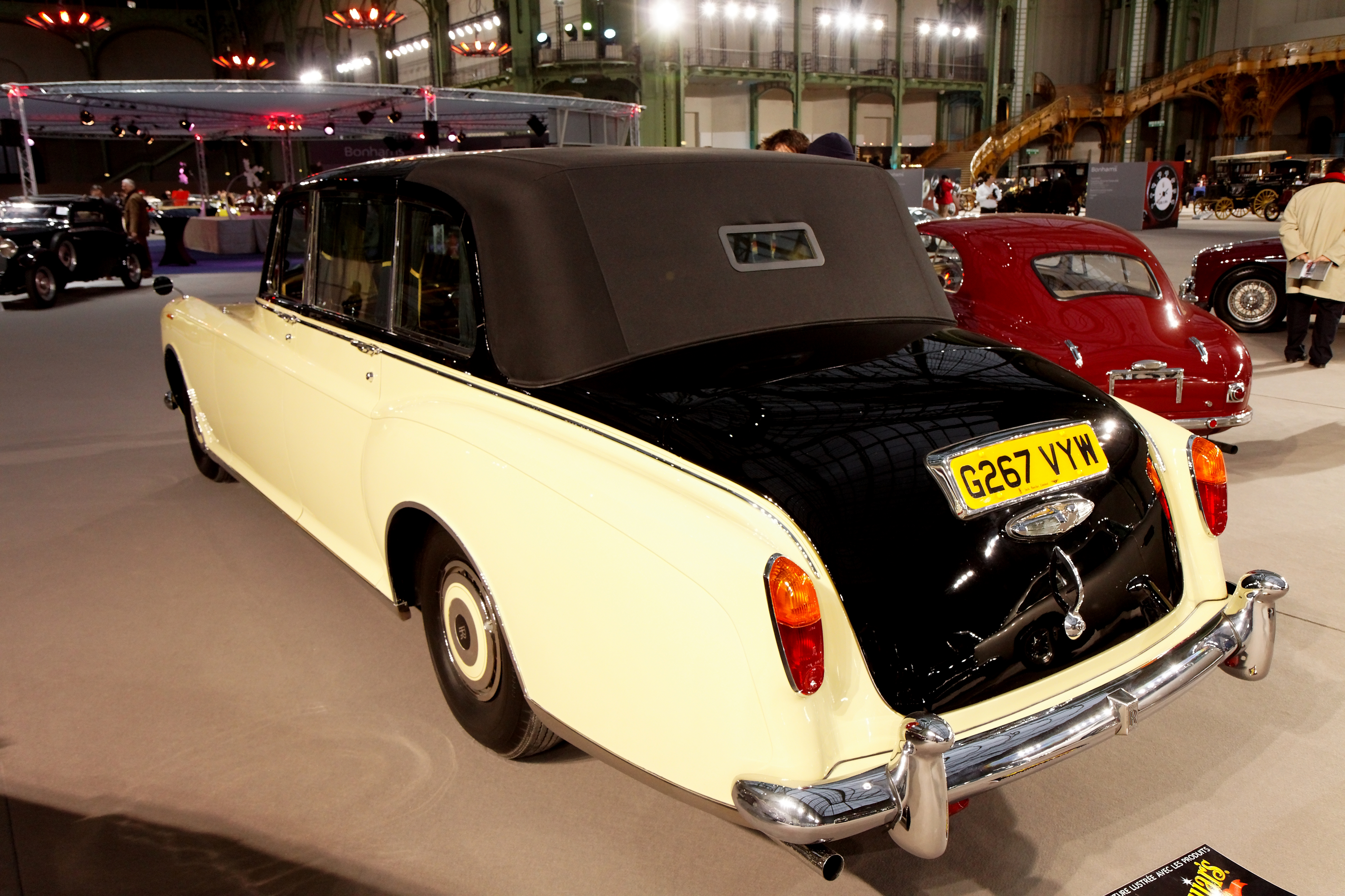 Rolls-Royce Phantom VI